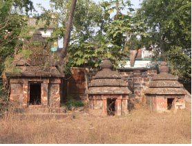 It is one of three such burial temples in the Sankarananda Matha precinct situated in the south-west corner at a distance of 50.00 metres from the matha building. It is located in the right side of the Ratha road leading from the Lingaraja temple to Ramesvara temple. The temple enshrines a Siva-lingam within a circular yonipitha